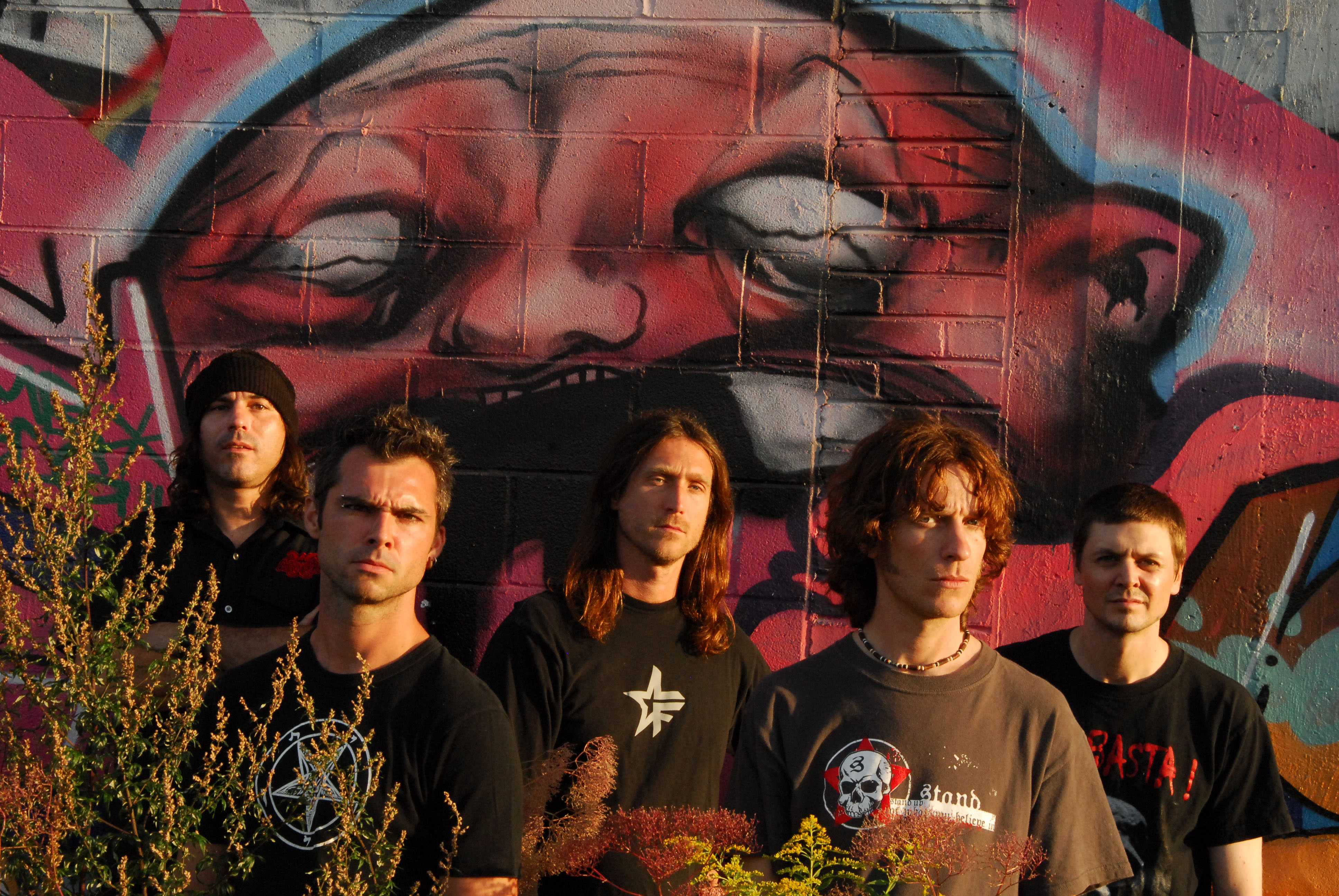 picture of Grimskunk in 2009